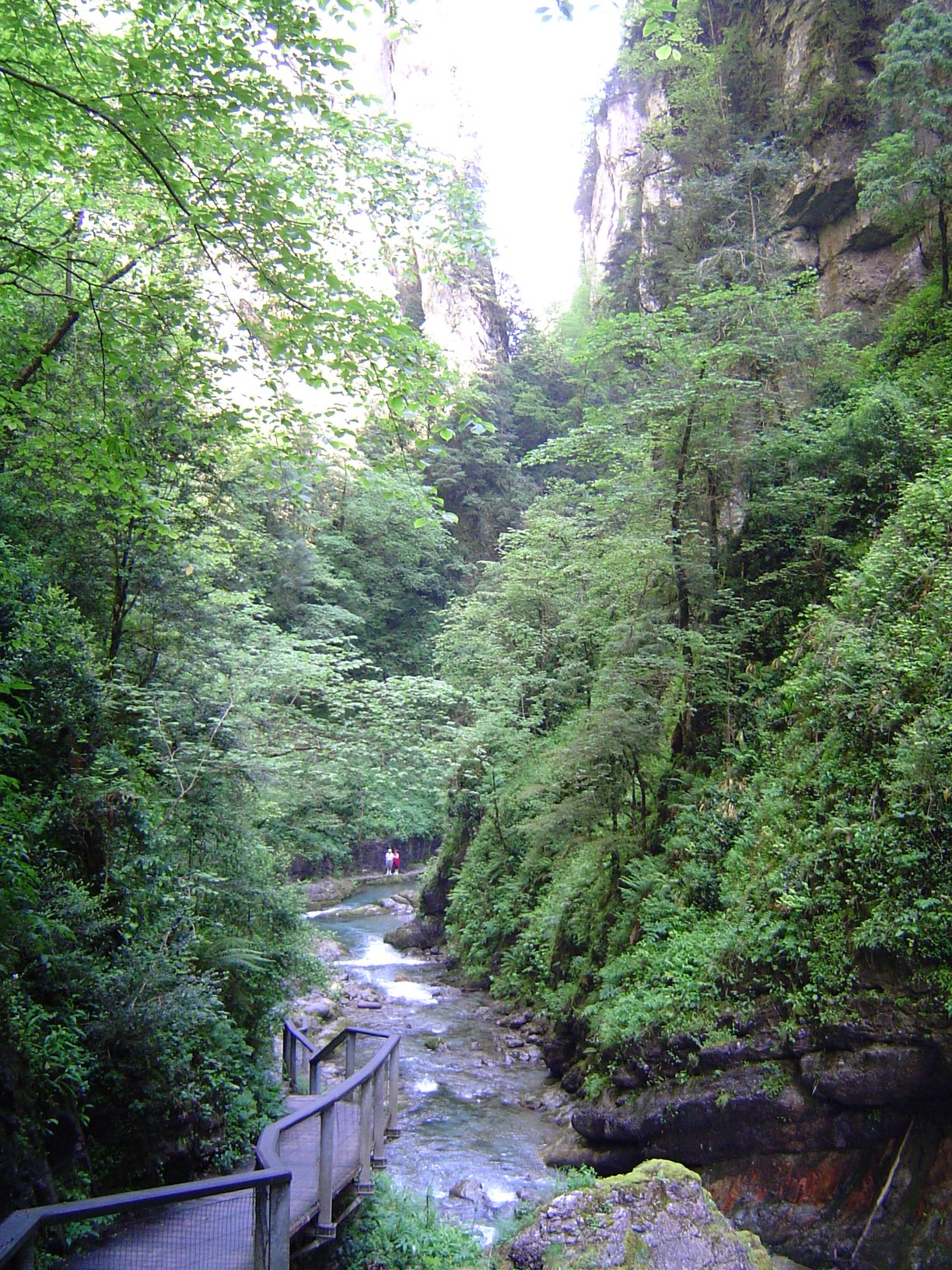 Kakouetta gorges, Sainte-Engrâce, Haute Soule, Northern Basque Country, France